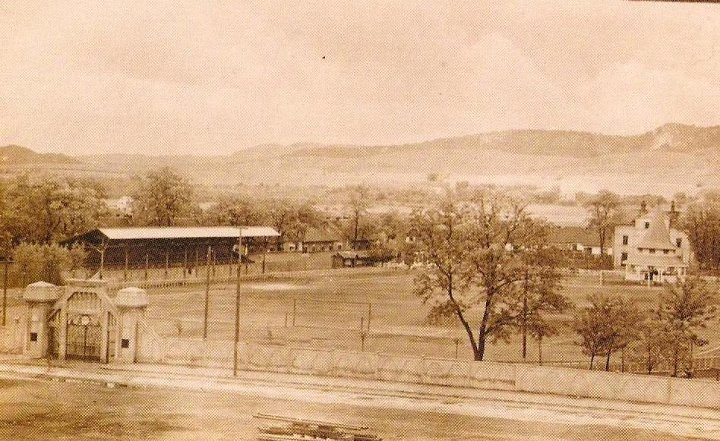 Old panorama picture of Buzanszky Stadium in Dorog